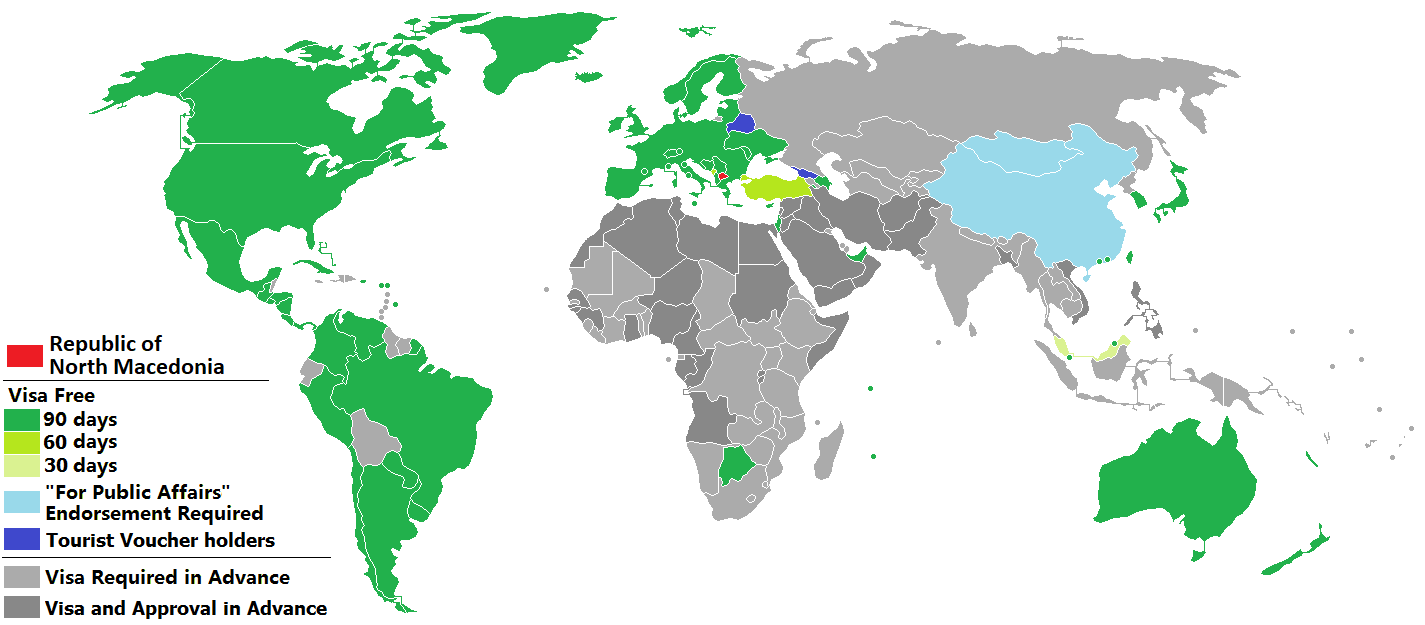 Visa policy of the Republic of North Macedonia Republic of North Macedonia Visa-free access up to 90 days Visa-free access up to 60 days Visa-free access up to 30 days Visa-free access provided holding a tourist voucher Visa-free access with passports endorsed "business" or "for public affairs" Visa required Visa and approval from the Ministry of Interior required